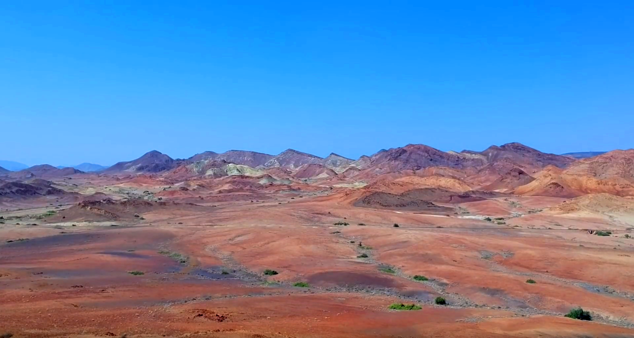 The mountains near Dasbiyo.